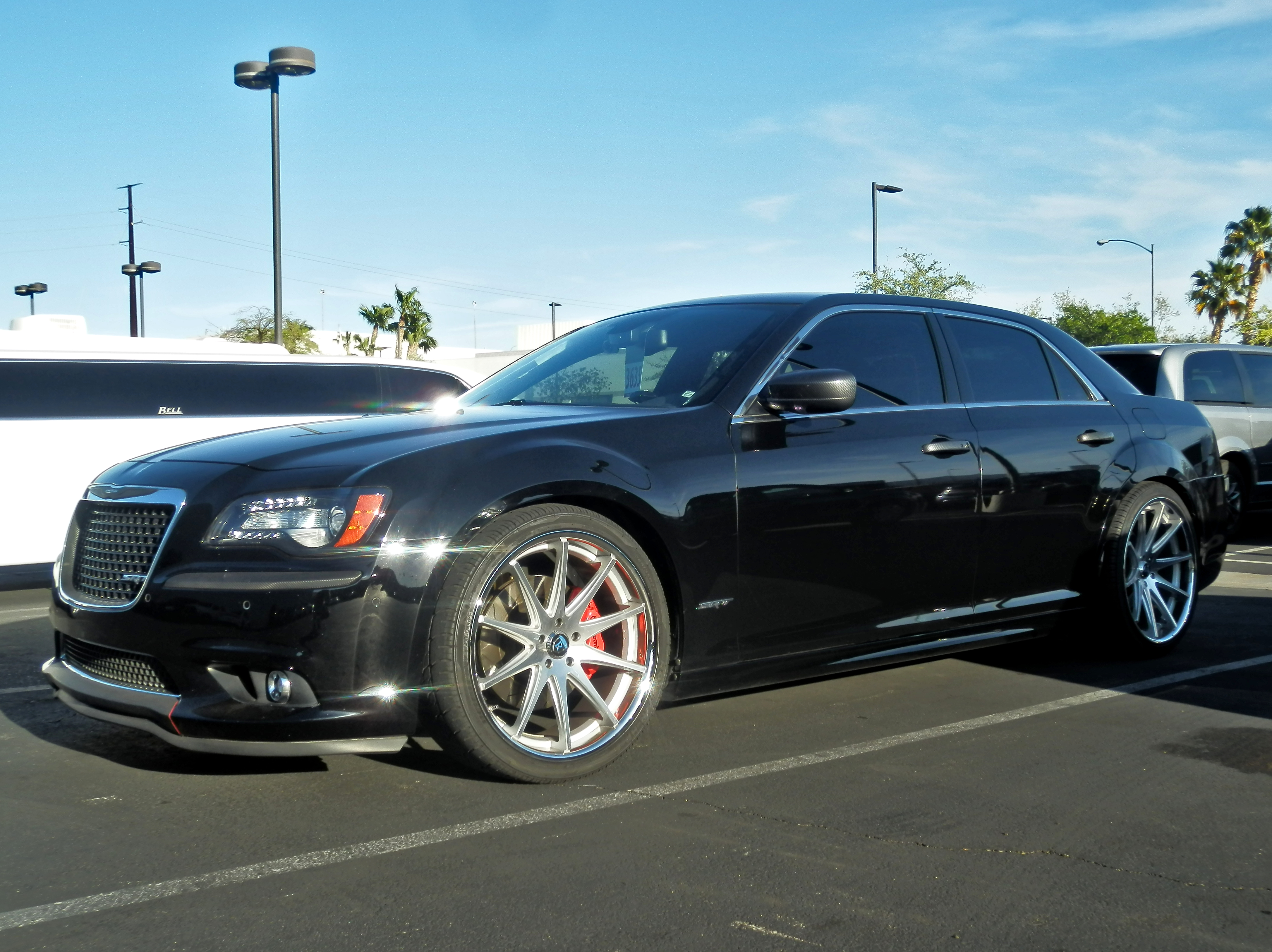 Chrysler 300 SRT8 in Las Vegas